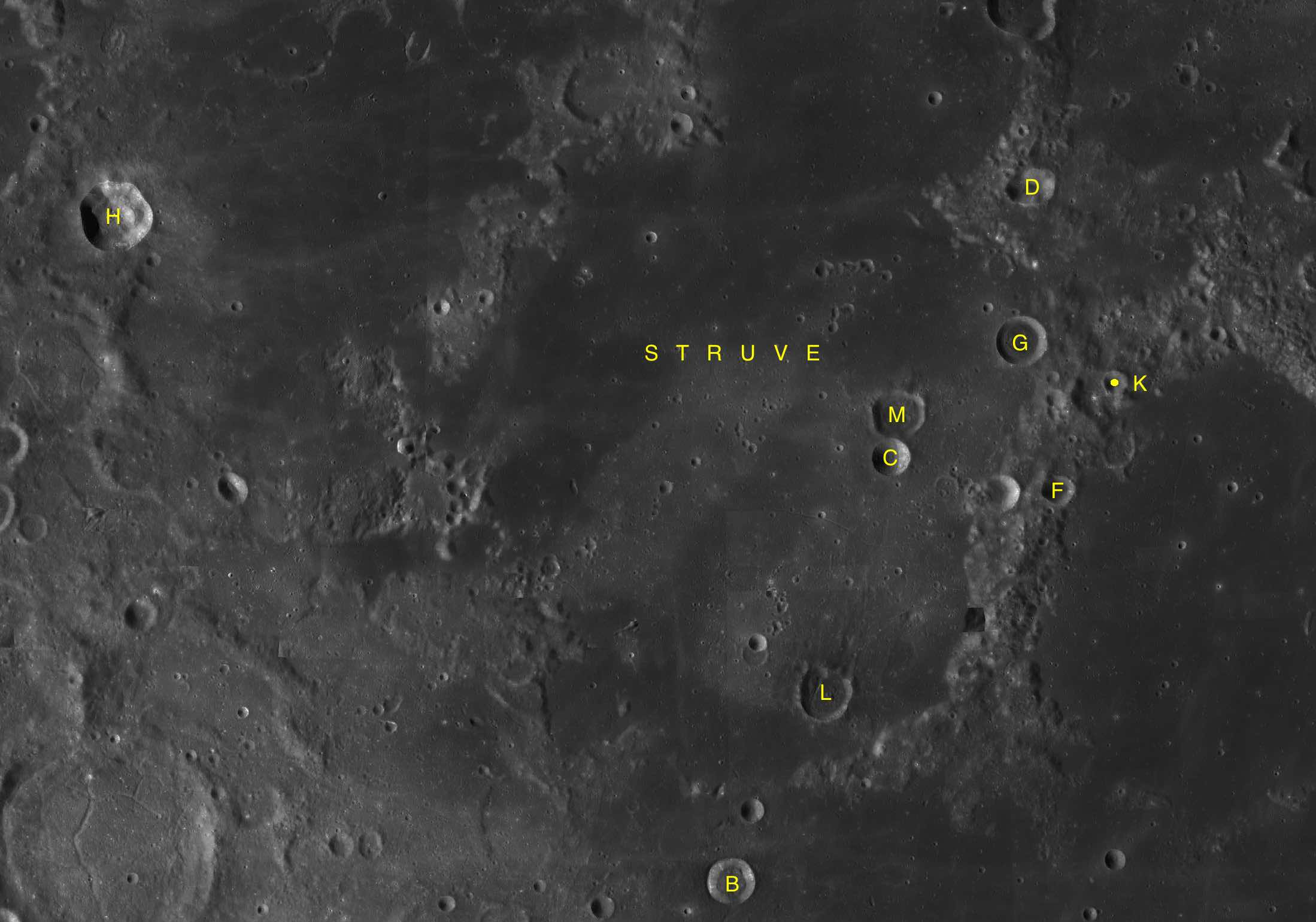 Part of the chart LAC-37 used for the presentation.